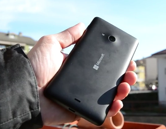 The back of a black Microsoft Lumia 535.